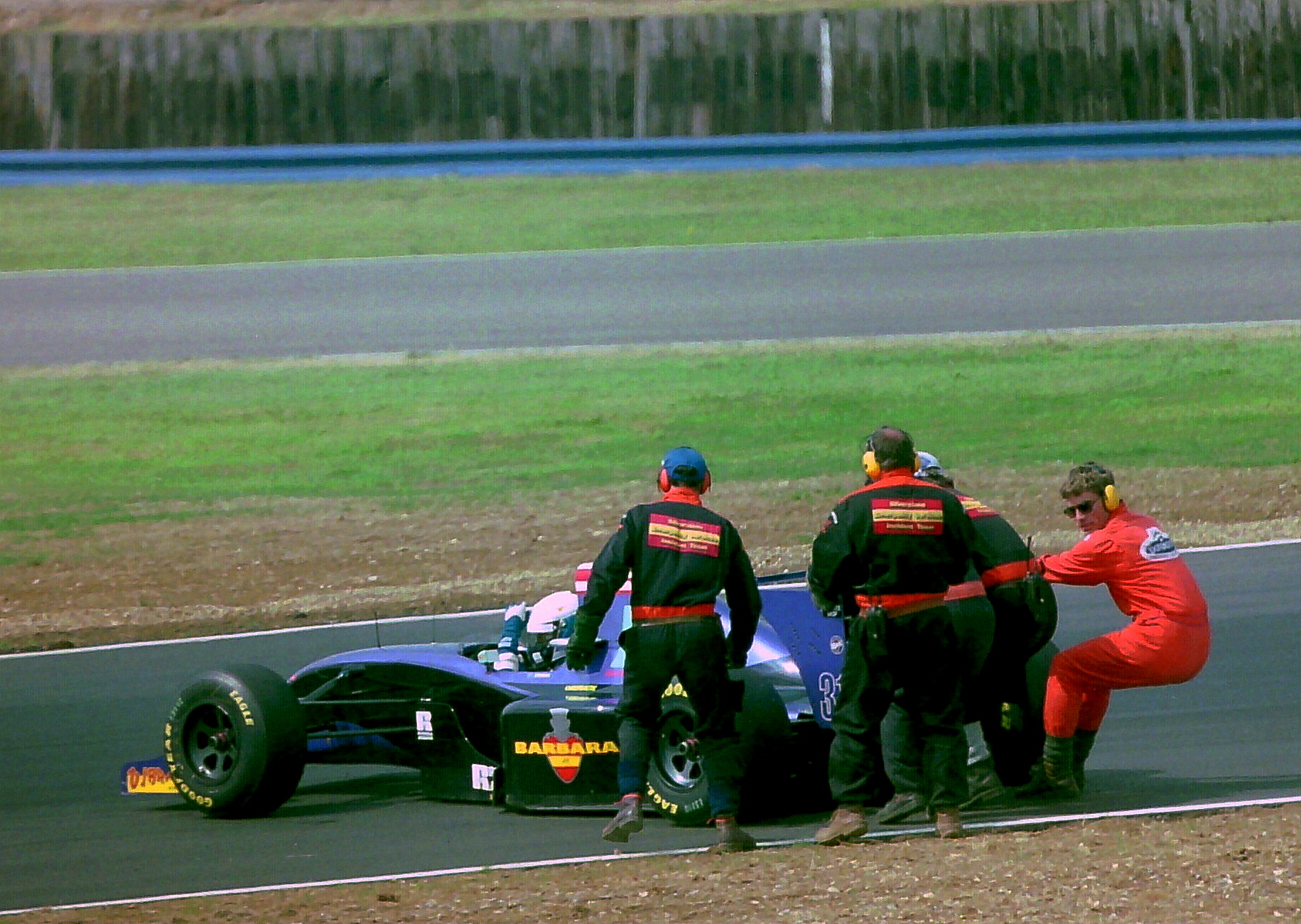 David Brabham - Simtek S941 is assisted by marshals at the 1994 British Grand Prix